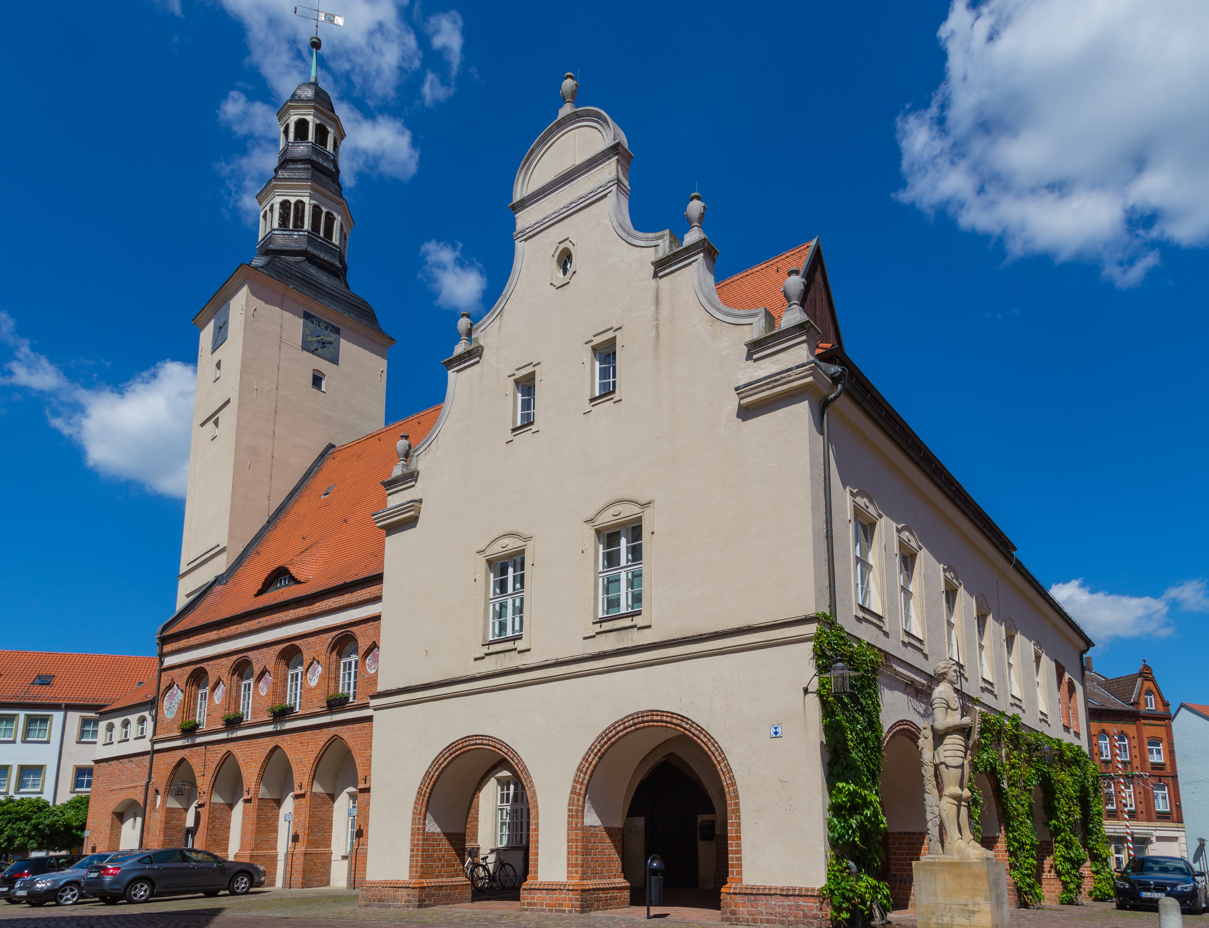 The town hall of Gardelegen, Altmarkkreis Salzwedel, Saxony-Anhalt, Germany. It is a listed cultural heritage monument.